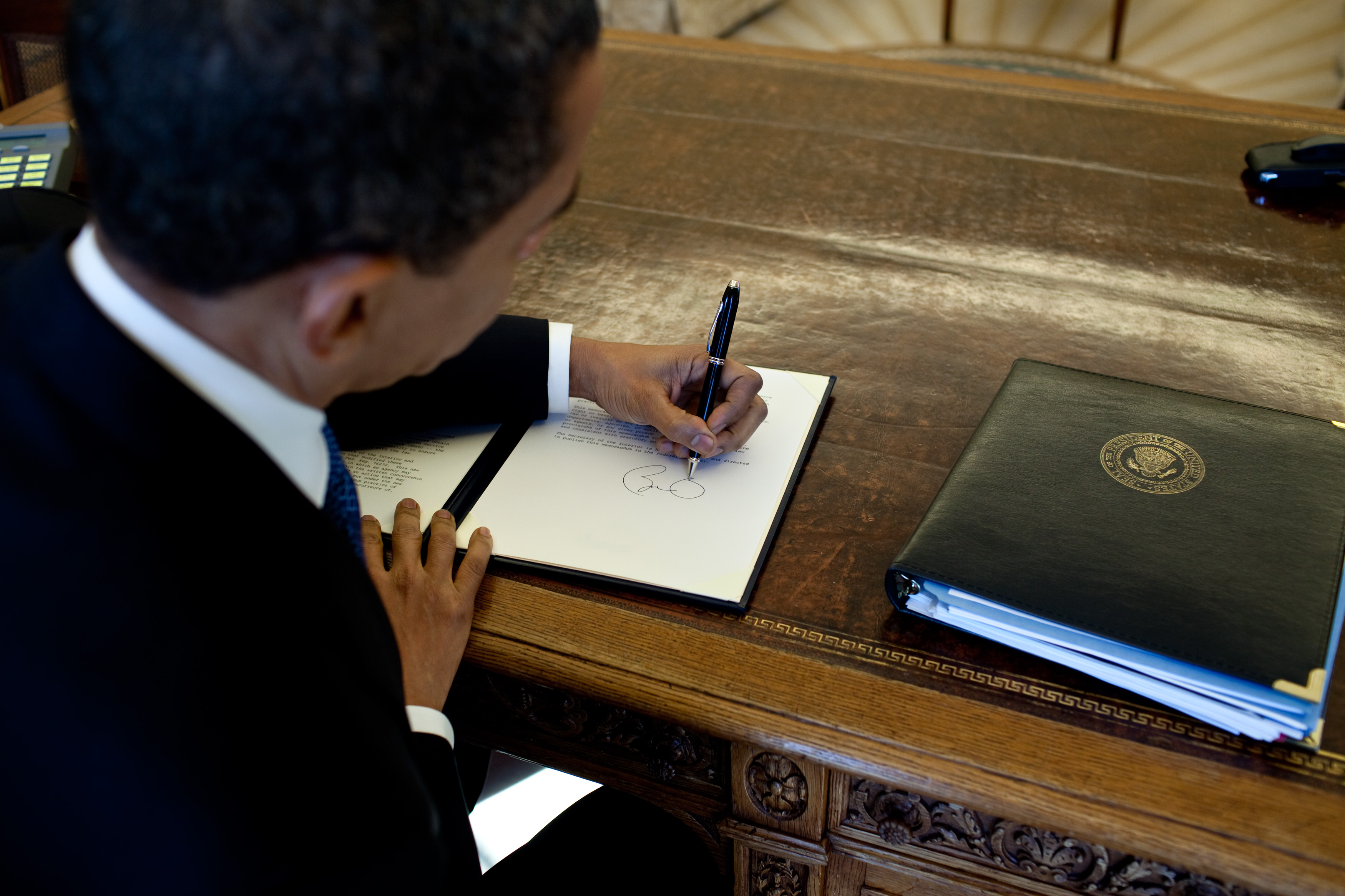 President Barack Obama writes at his desk in the Oval Office 3/3/09.